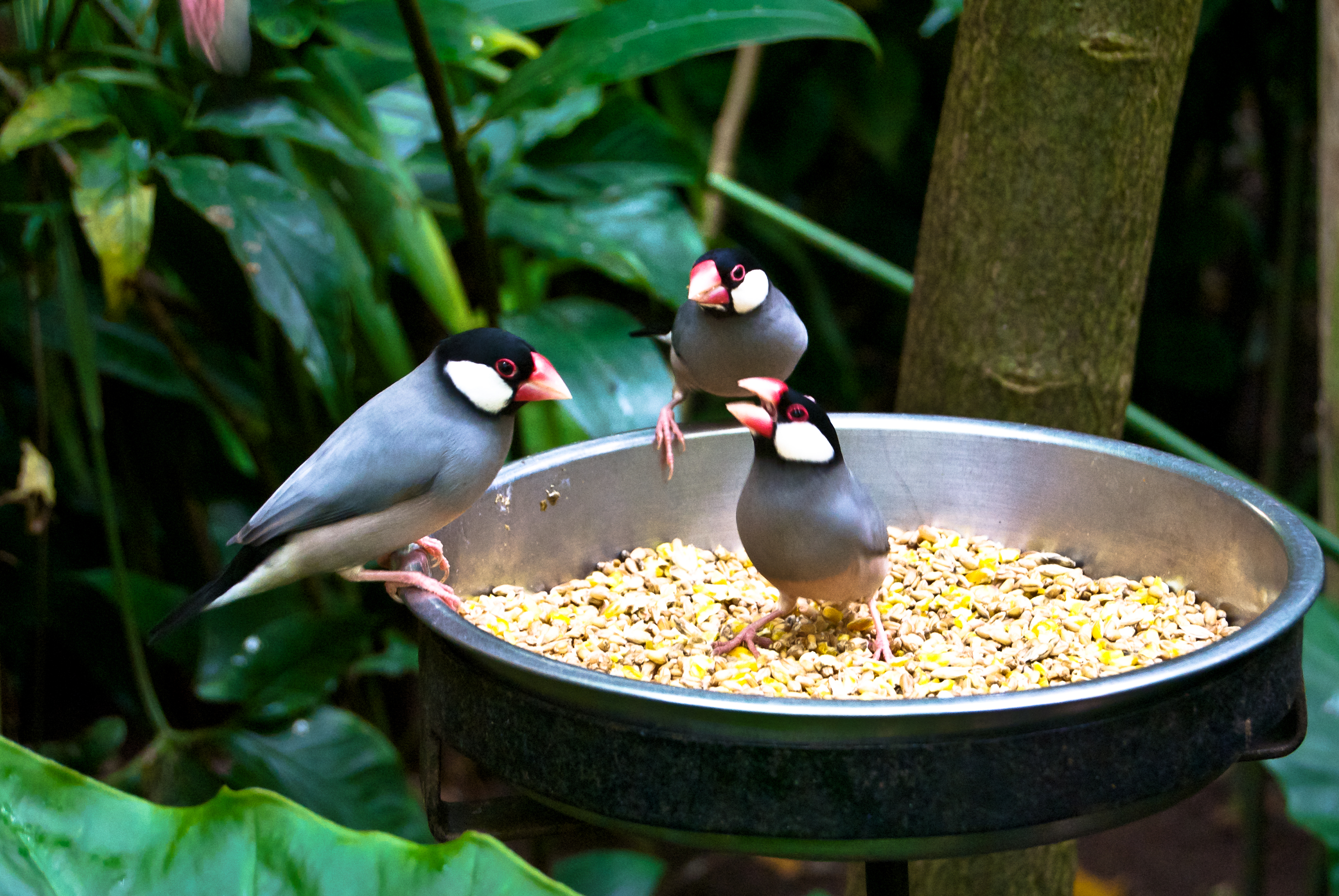 Three Java Sparrows (also known as Java Finch and Java Rice Bird) at Paignton Zoo, Devon, England.